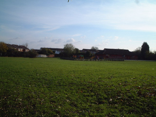 Castle Batch Recreational Area. A bit of green space totally surrounded by the ever growing 'suburbia'of Weston Super Mare